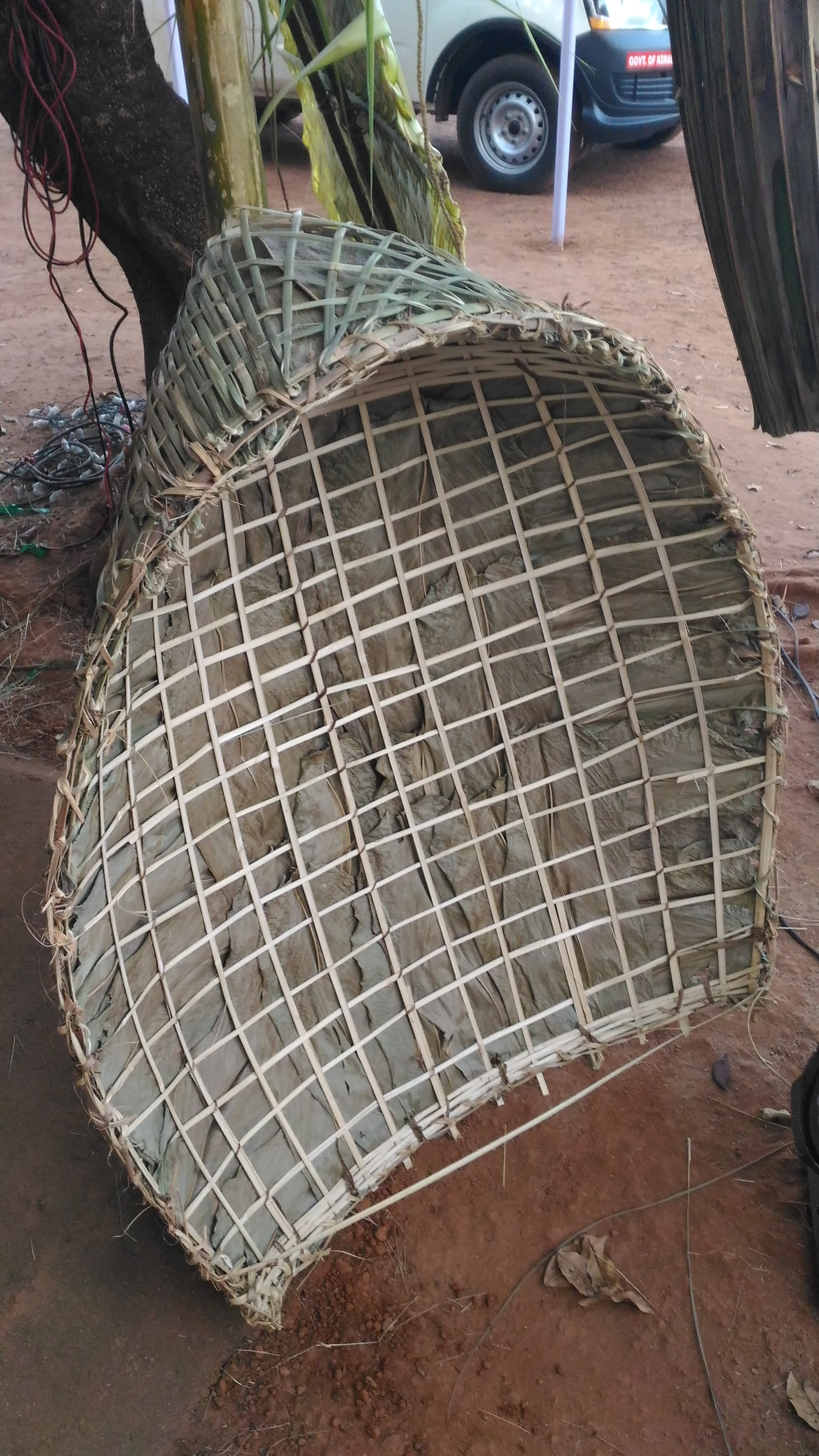 marakkuramba_ മരക്കുരമ്പ